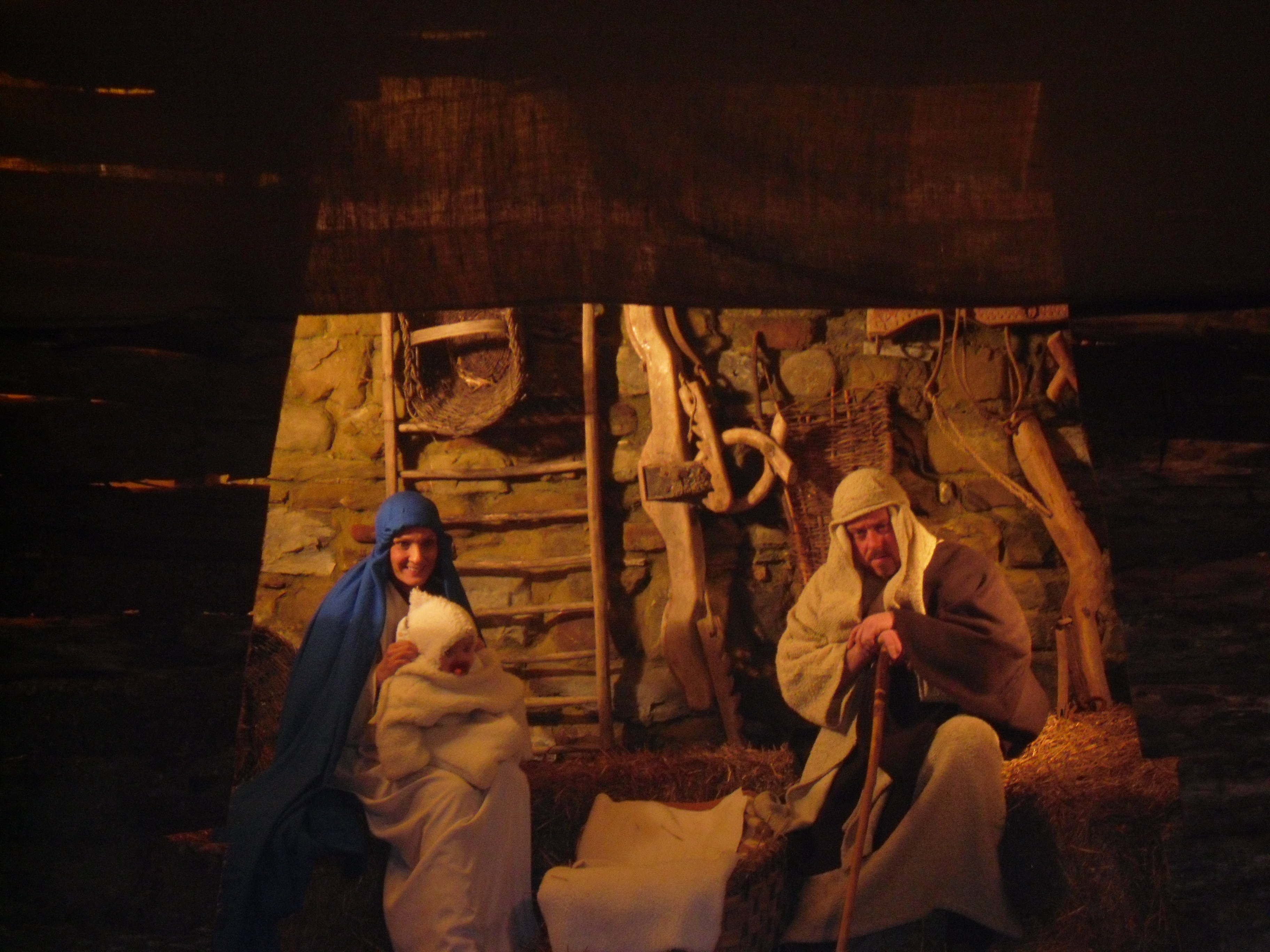 Living nativity in Castiglion Fiorentino (Province of Arezzo, Italy)